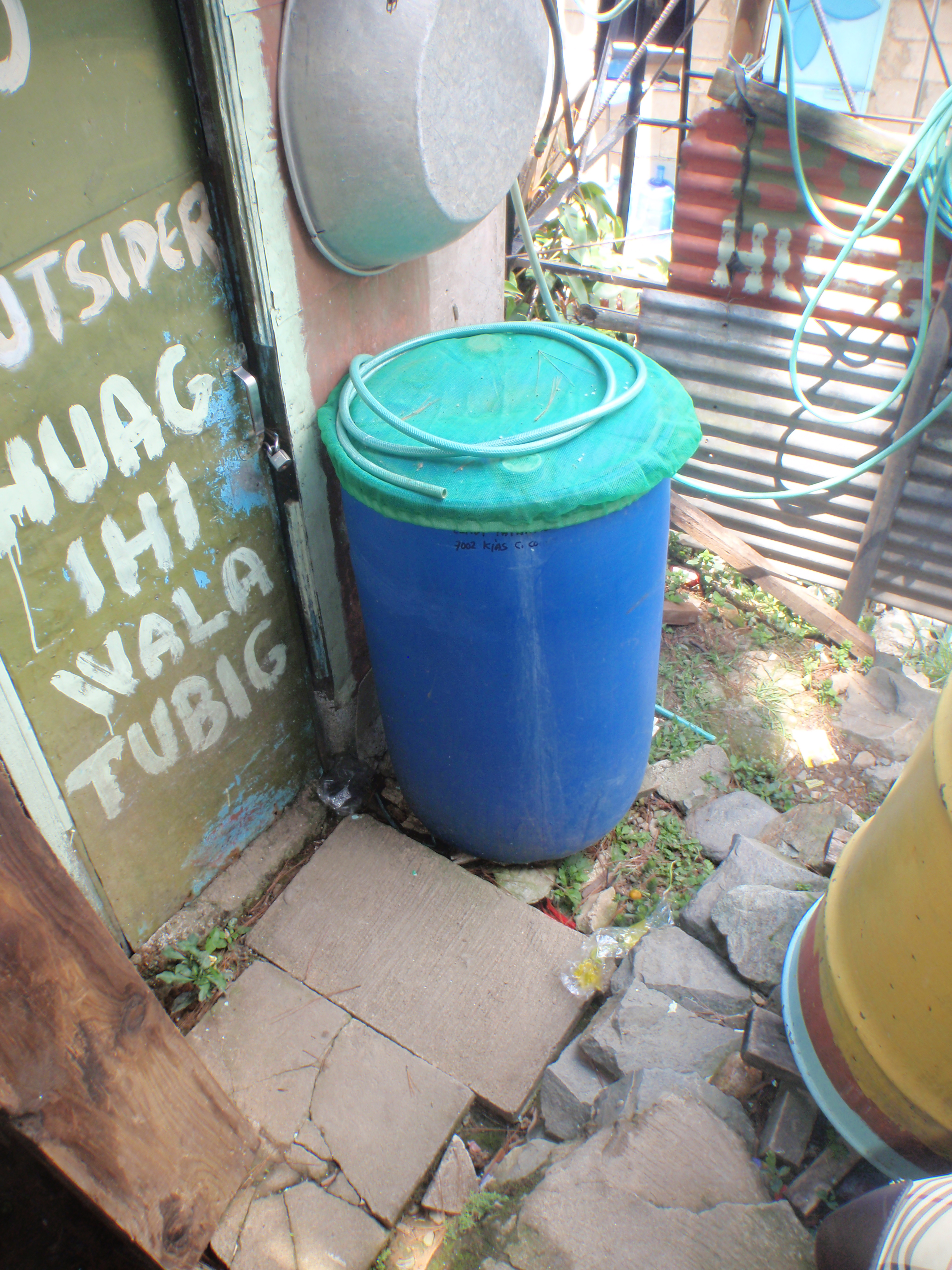 Covering water to prevent dengue, Baguio, Philippines 2011. Photo: AusAID